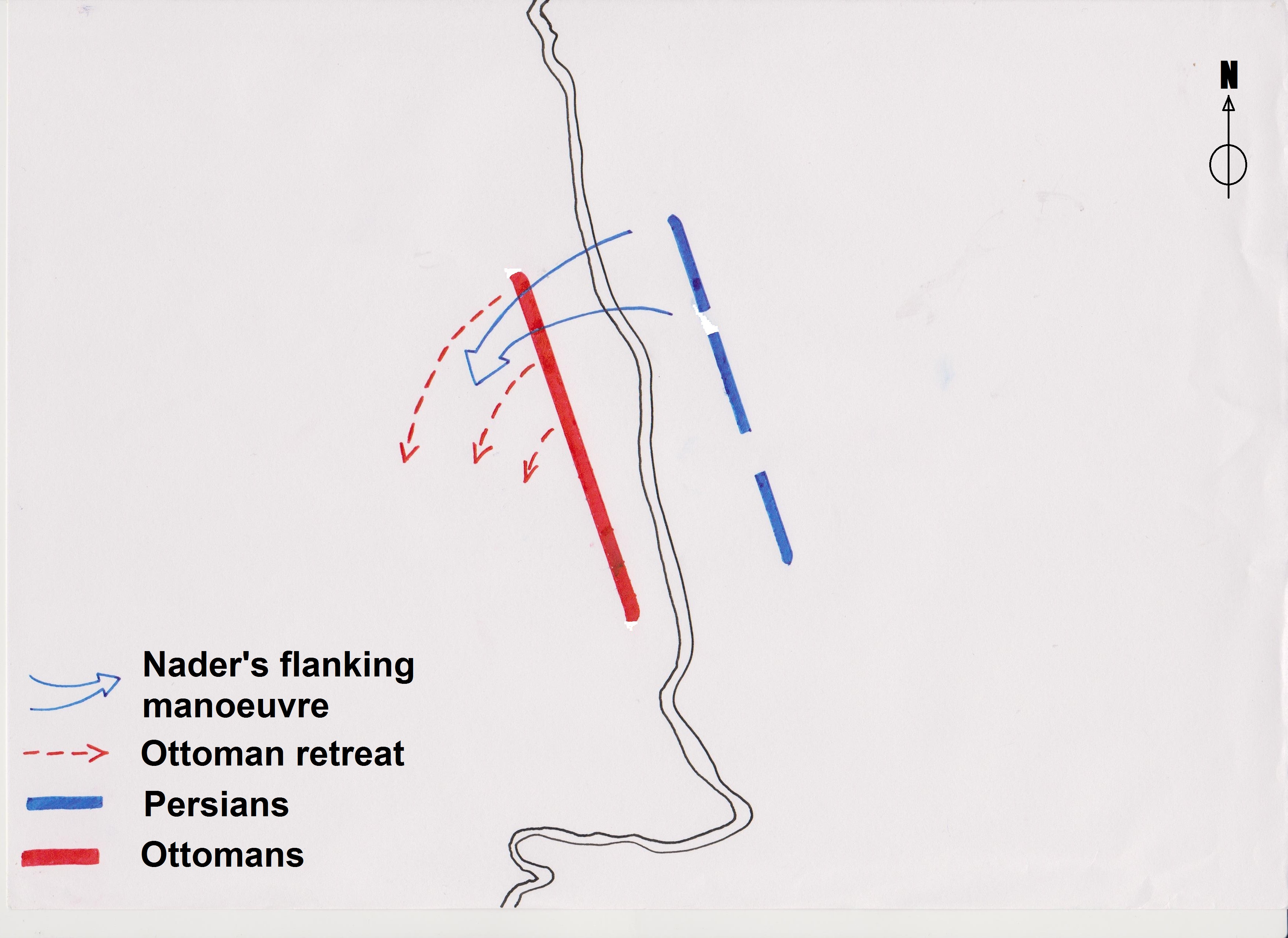 gjhjftrerddd